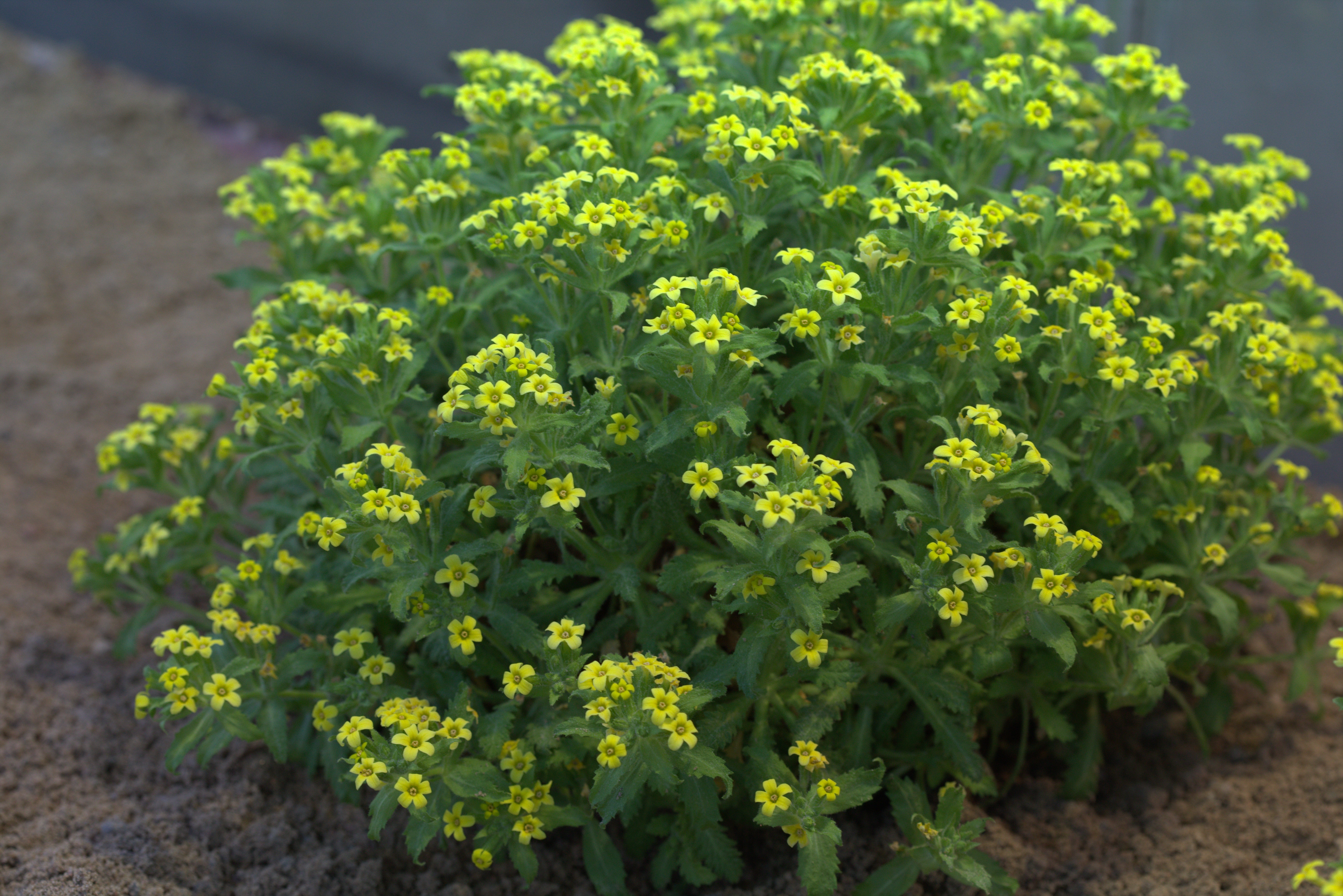 Dionysia viva at Gothenburg Botanical Garden in 2015. Plant id: 2002-202 s W --Stopp; T4Z 035